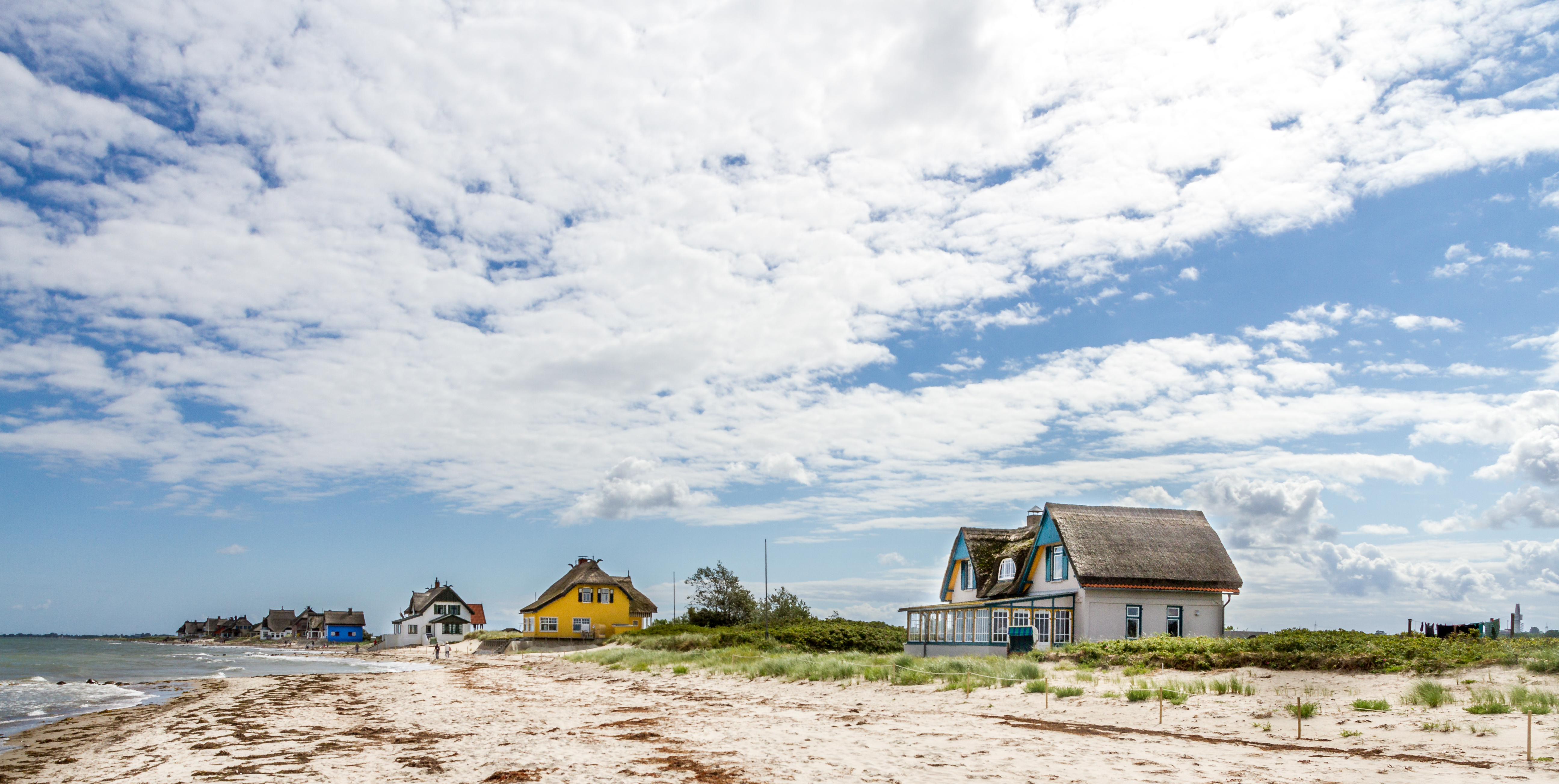 Houses on Graswarder